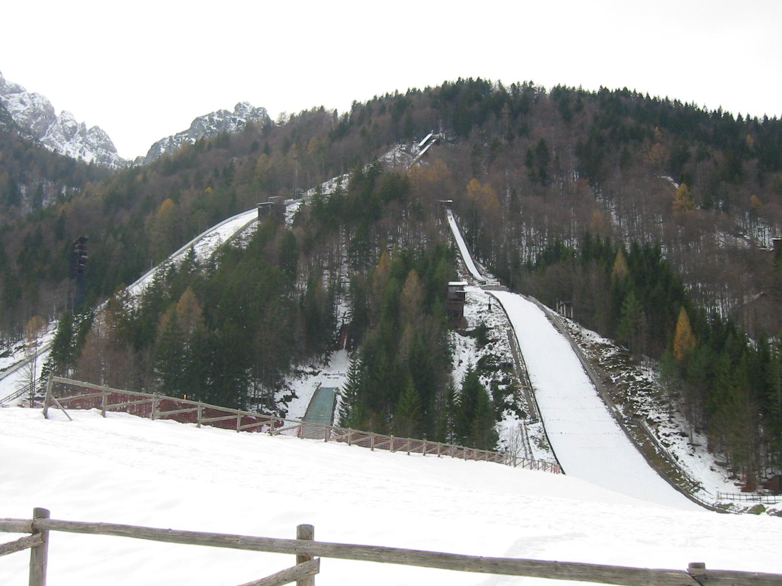 Ski-jumping place Planica, Slovenia (present world record site) photo:Ziga 11:01, 16 April 2007 (UTC)